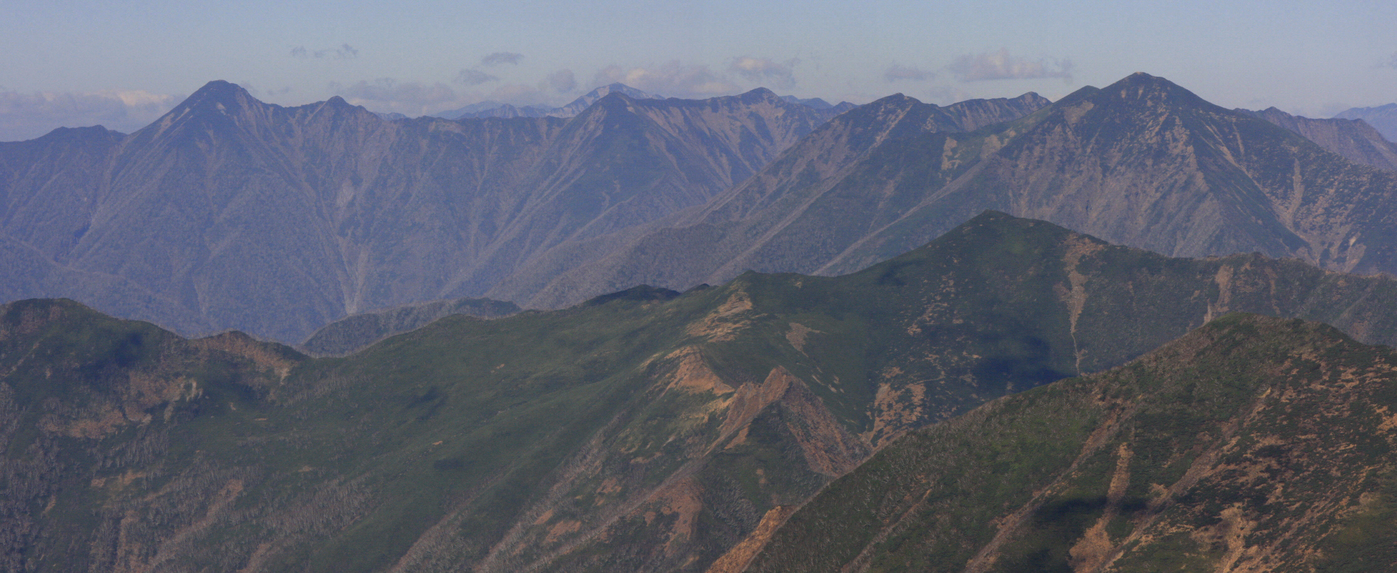 Main ridge of the Hidaka Mountains seen from Mount Kamui